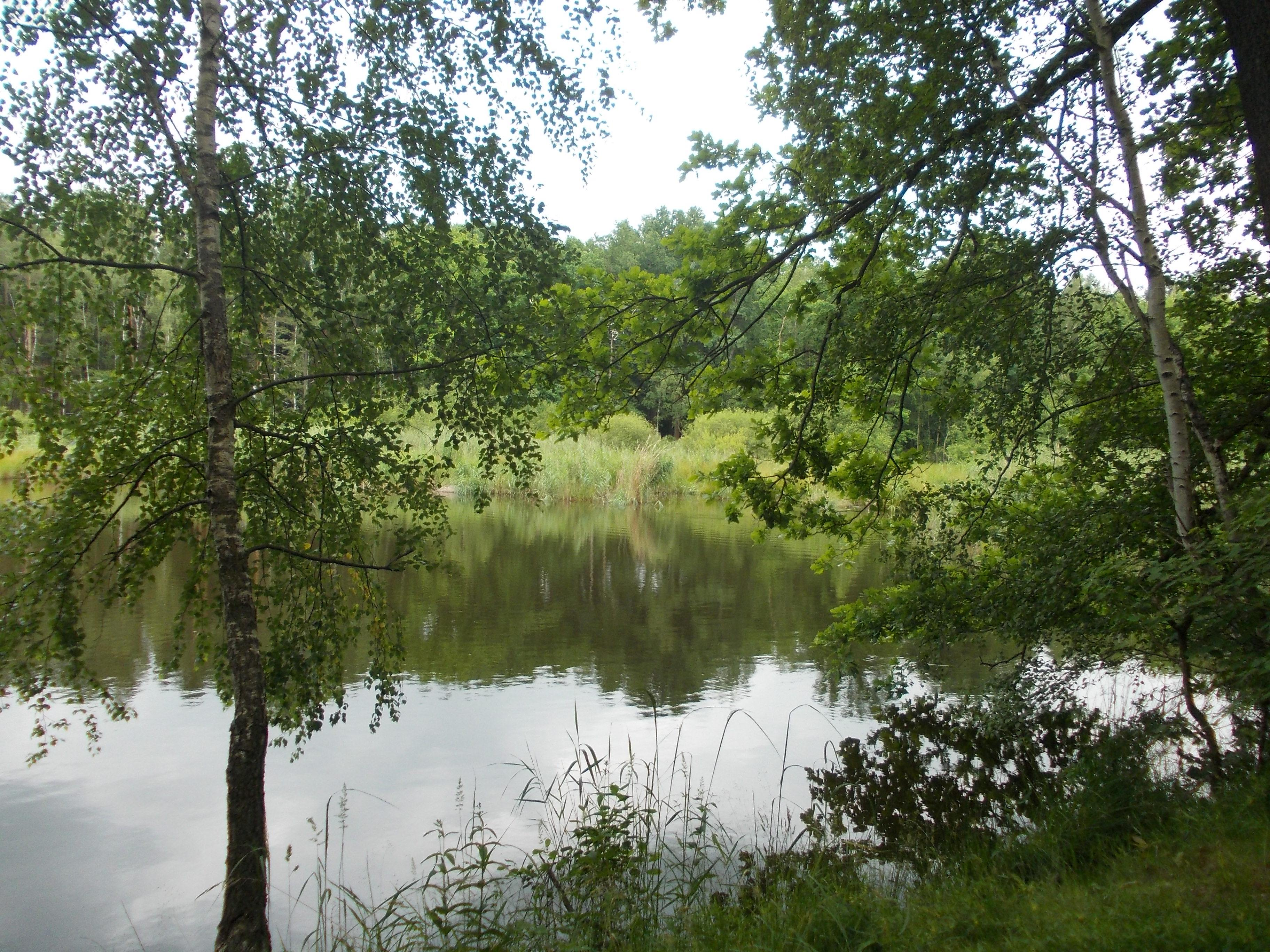 New pond near Zeuckritz (Caveritz, Nordsachsen district, Saxony) in the Reudnitz nature reserve